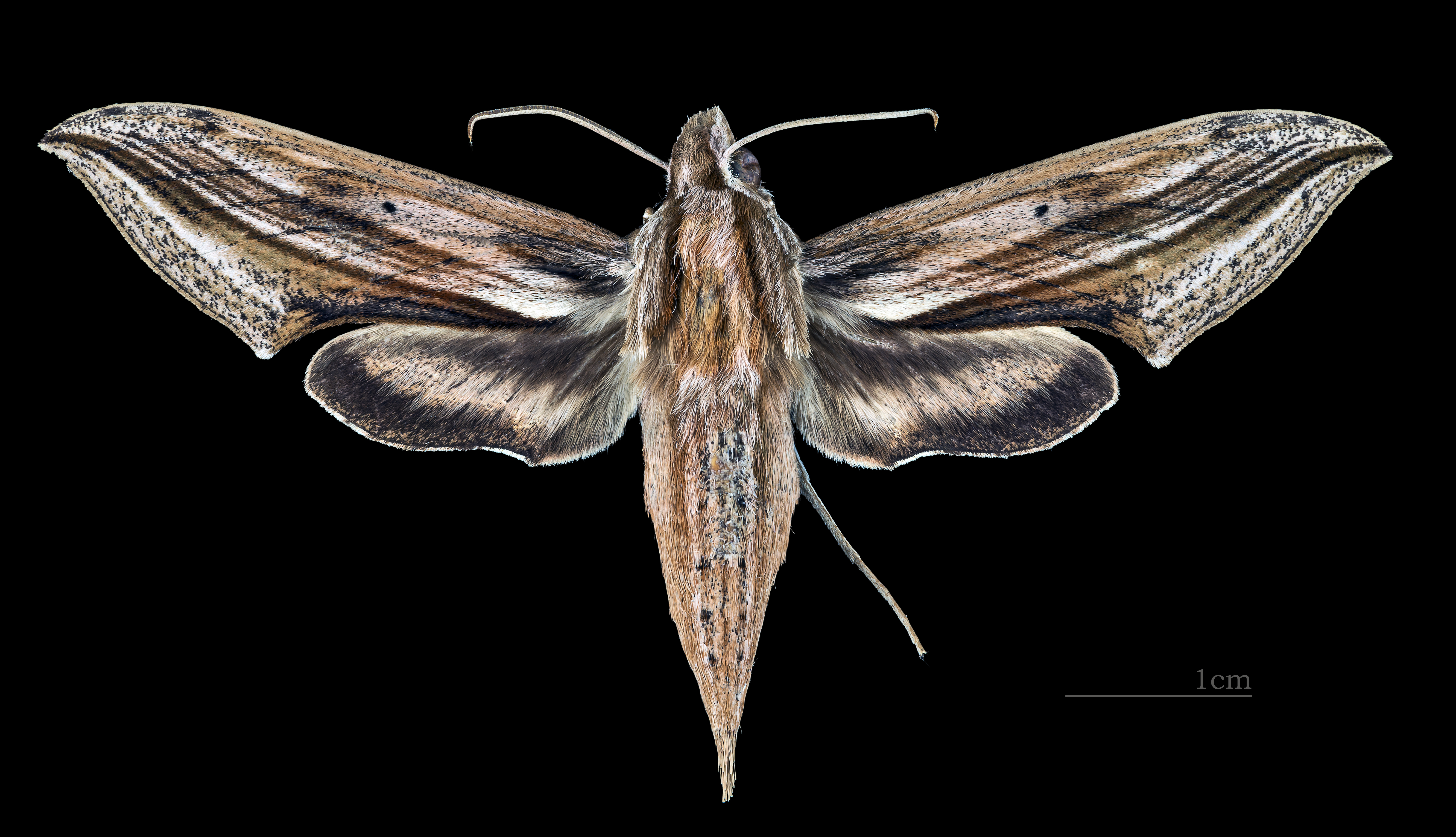 Xylophanes maculator - Dorsal side Collection of the Mathematician Laurent Schwartz